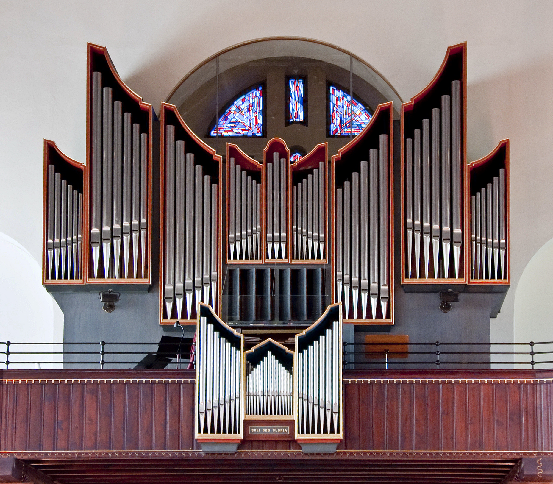 Trefaldighetskyrkan, Arvika. Diocese of Karlstad. Organ.